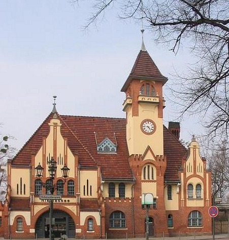 entrance building of the S-Bahn station Nikolassee, Berlin (lines S1 and S7)